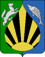 Coat of Arms of Khanty-Mansyisky rayon (Khanty-Mansyisky AO)